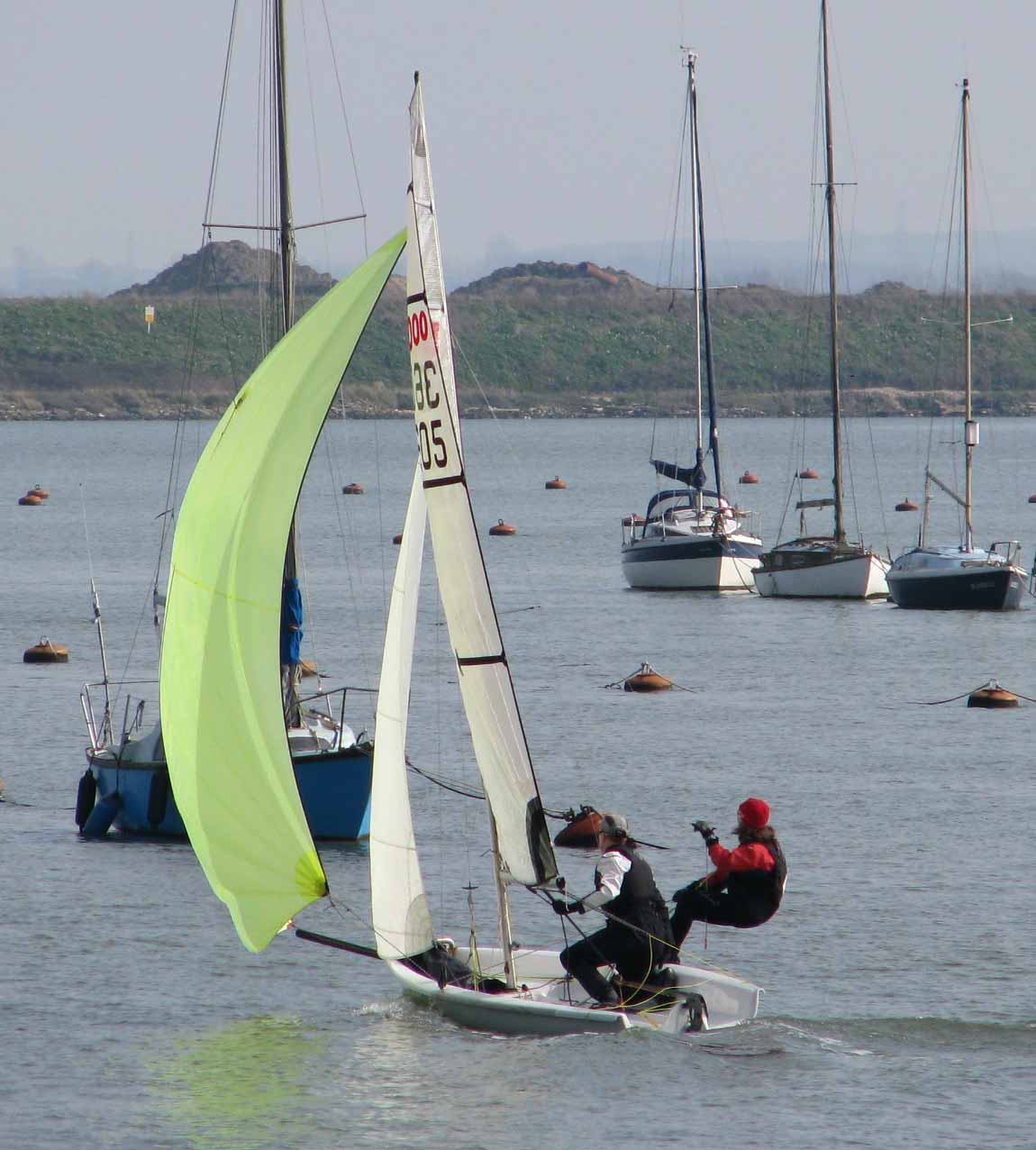 V3000 Dinghy with a bright gennaker